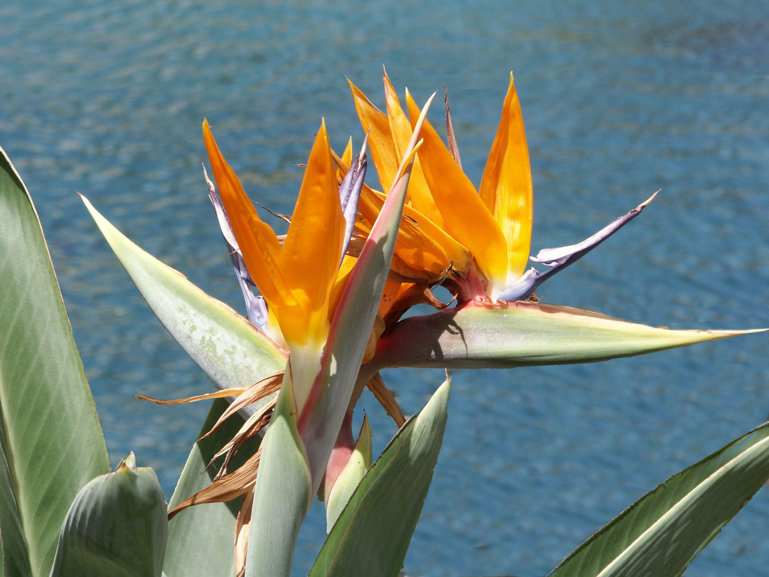 Strelitzia reginae Bird of paradise Strelitziaceae, Kirstenbosch National Botanical Garden, Cape Town, South Africa